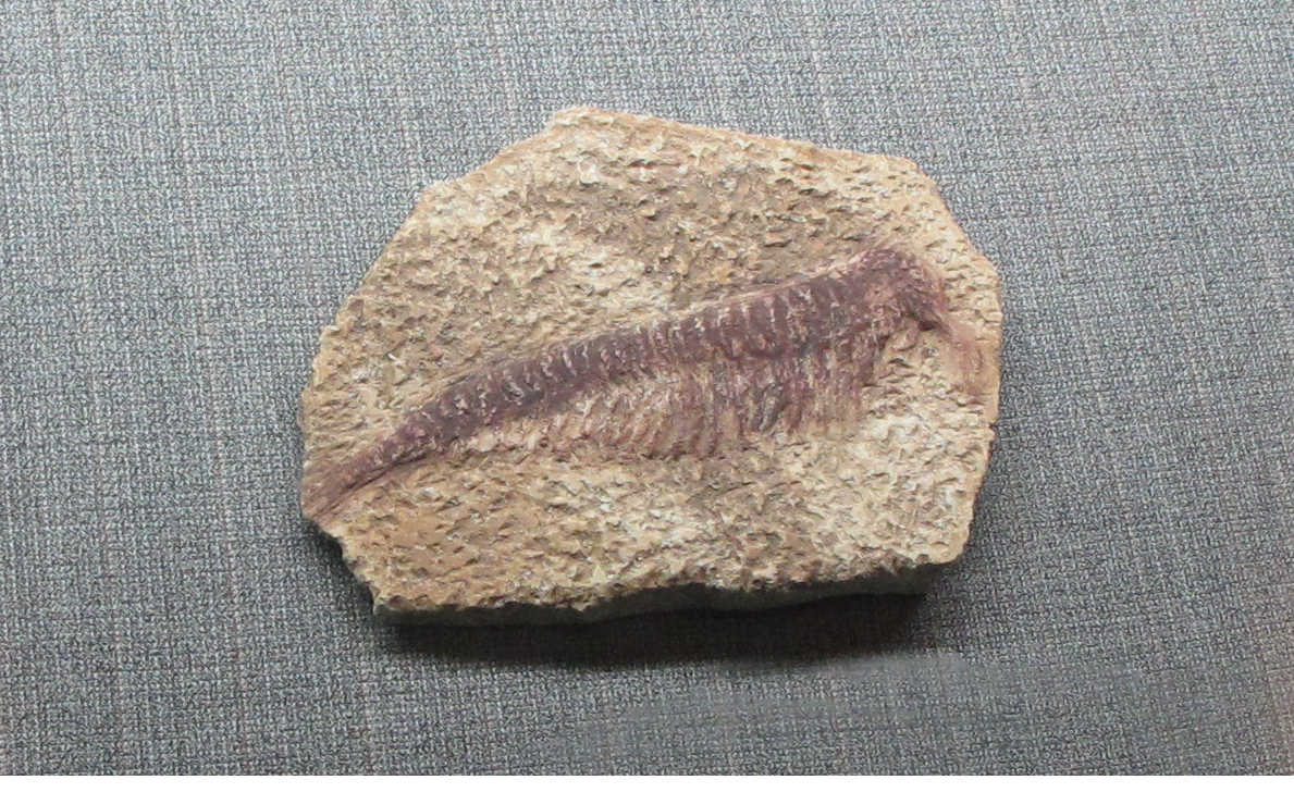 Jianfengia multisegmentalis - Chongqing Beibei Museum